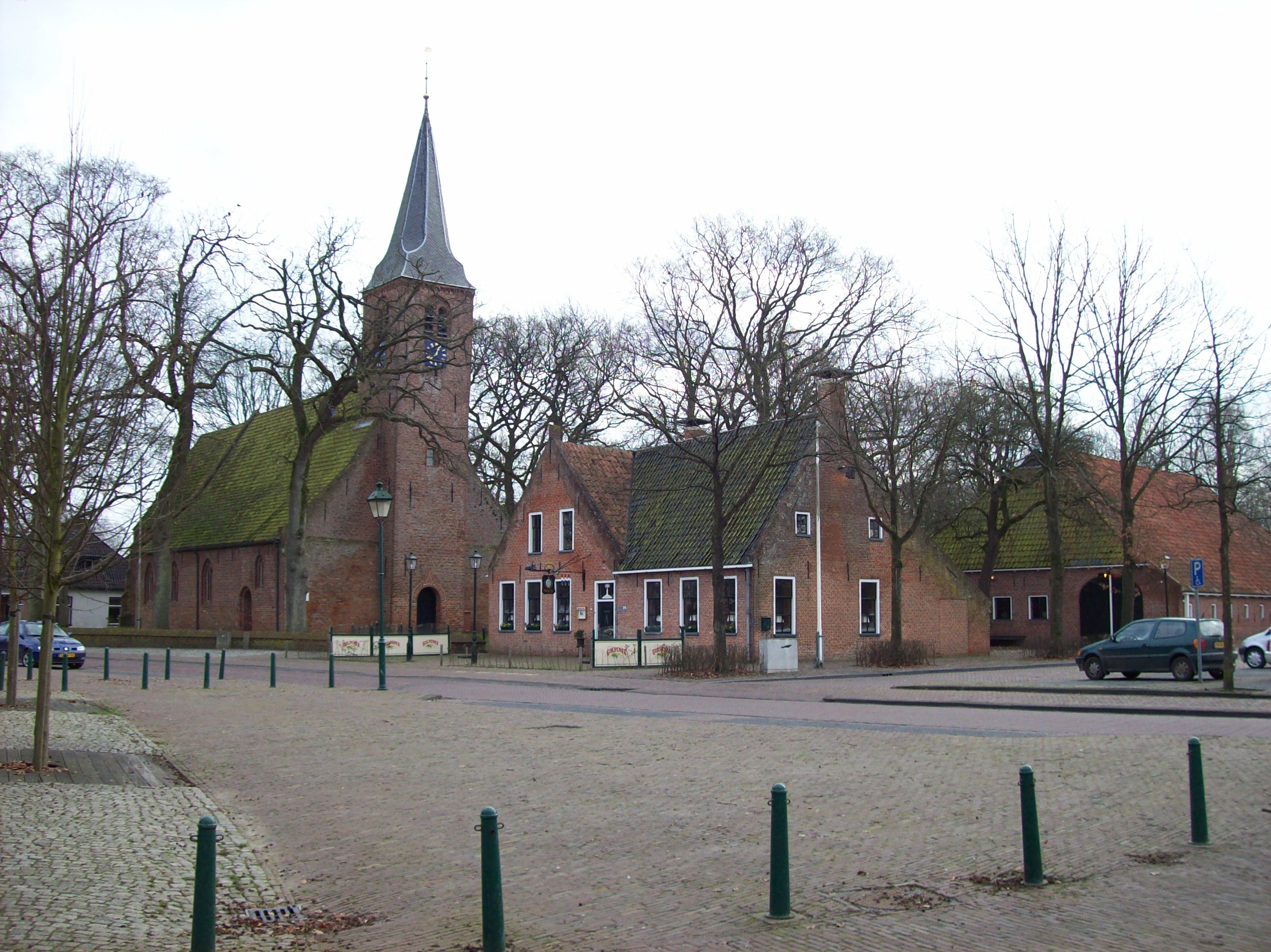 Roden church c 2007, Niels Elgaard Larsen.